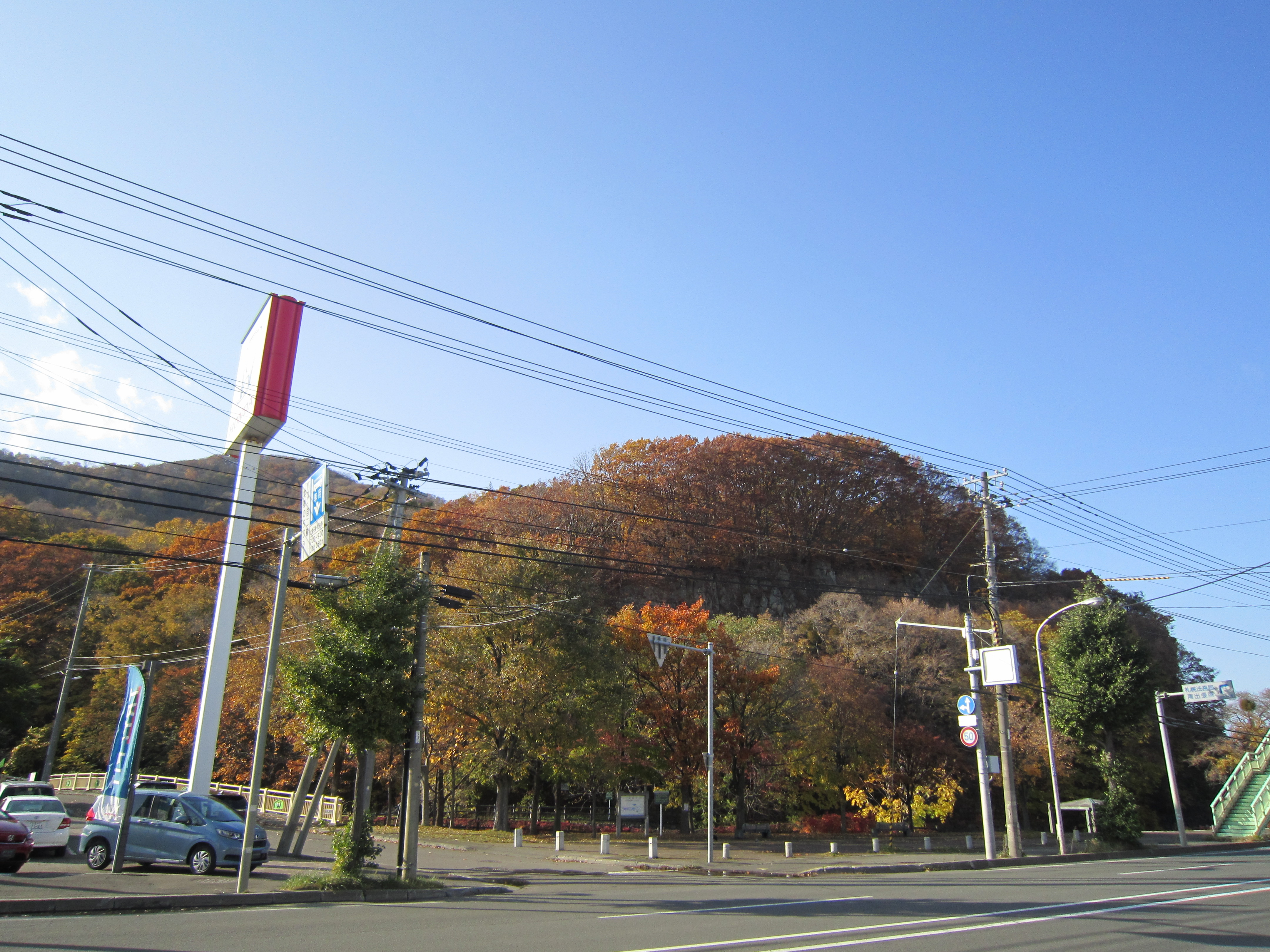 Gunkan Misaki (Warship Cape). Eastern edge of Mount Moiwa looks to bow of warship.